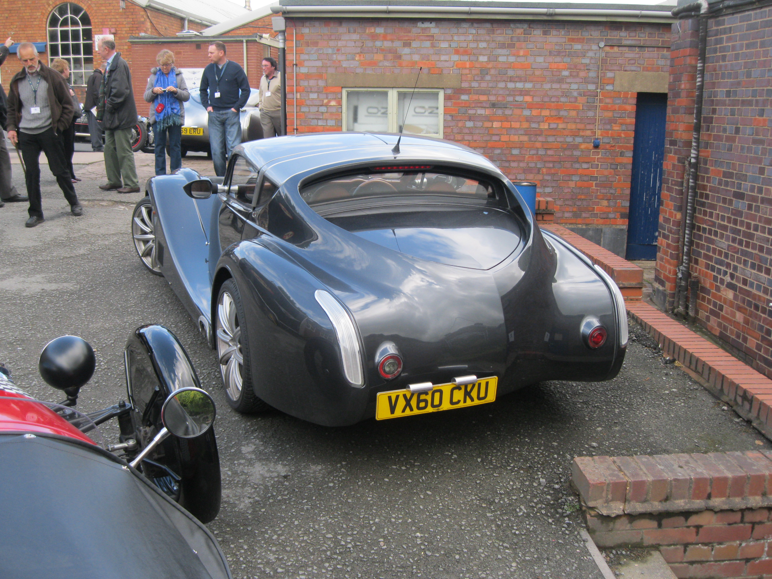 2010 Morgan Aero Super Sport Coupe